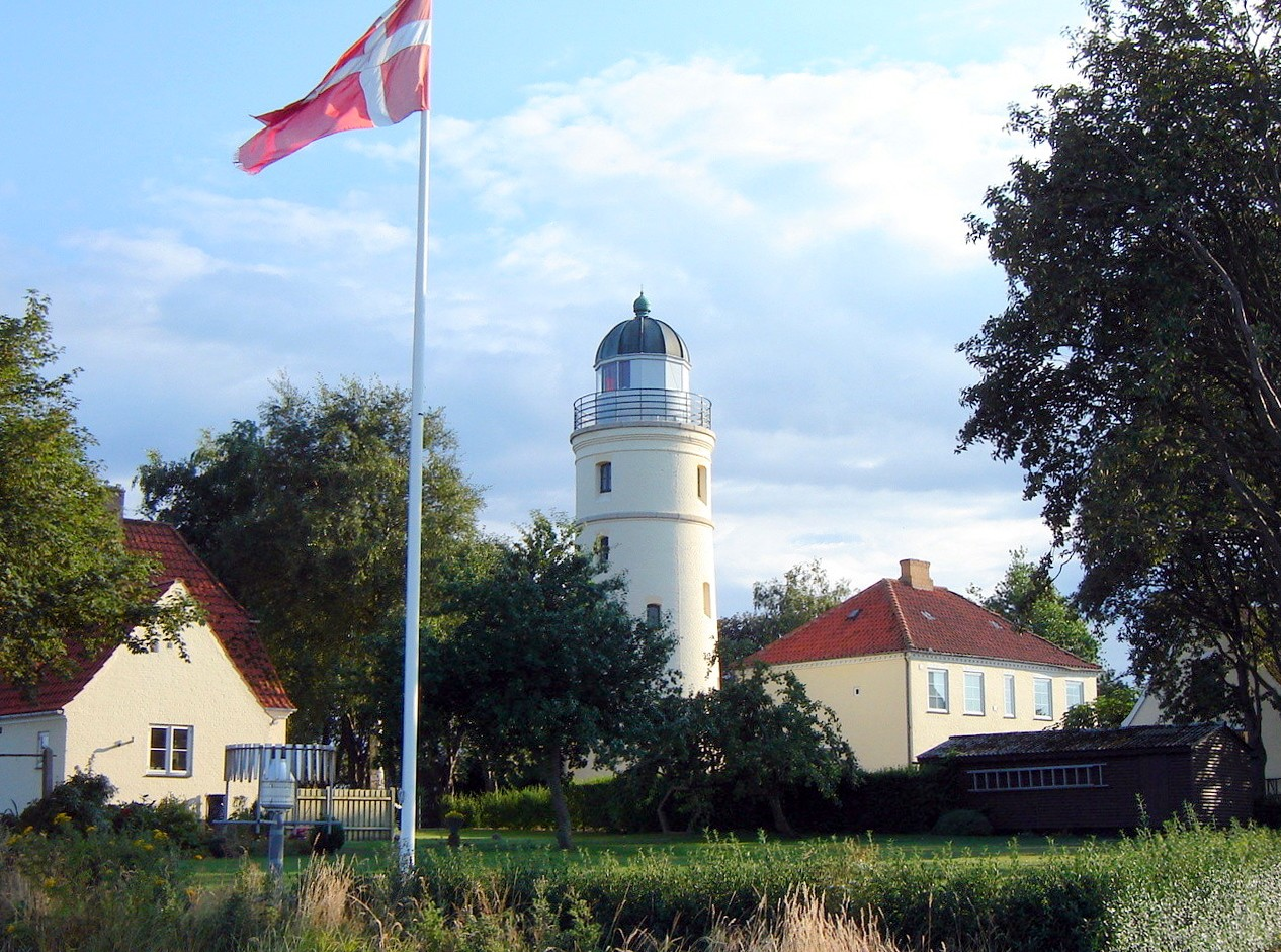 Kegnaes Lighthouse